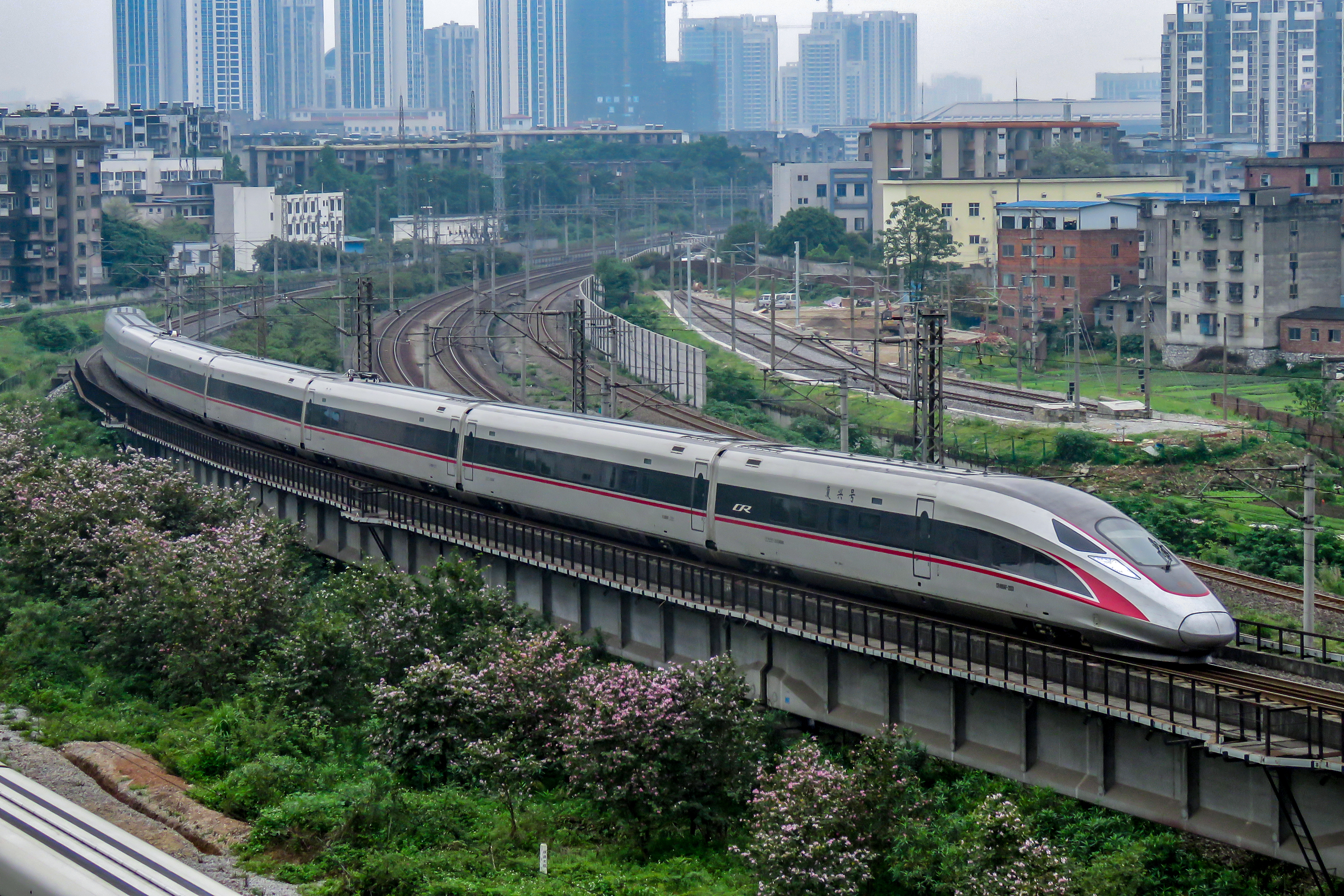 G424 from Nanning East to Shijiazhuang. I think an AF-A would be better for us to spot here.